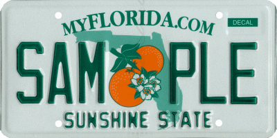 Florida license plate